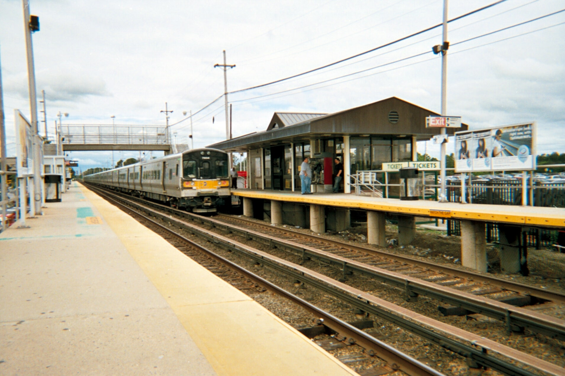 The train bound for Farmingdale (LIRR station) (probably for the 2009 U.S. Open Golf Championship), Hicksville (LIRR station), and Jamaica (LIRR station) leaves Deer Park (LIRR station).